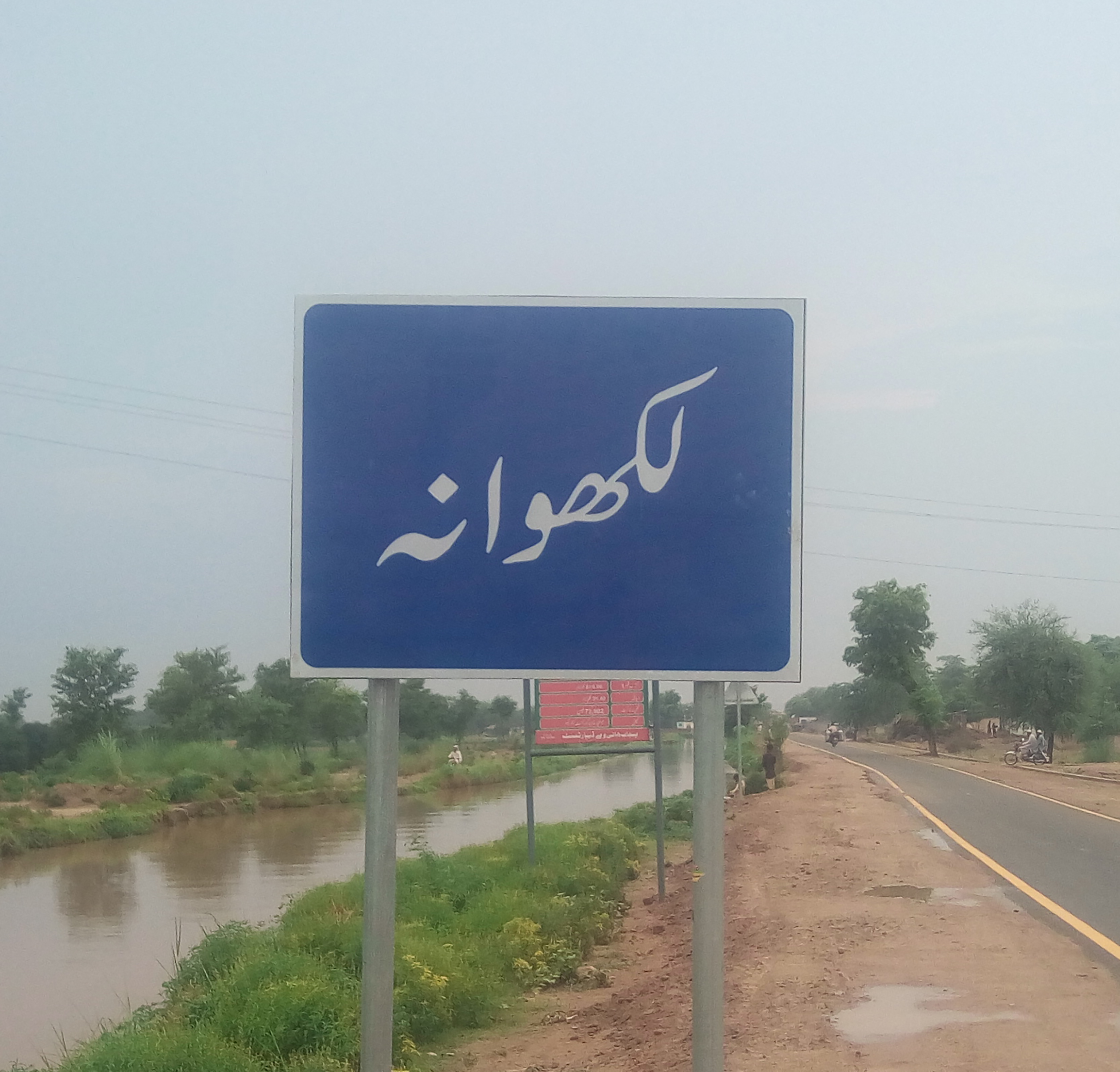 Signboard with the name of the village in Urdu language indicating the entrance to the village from the north side.